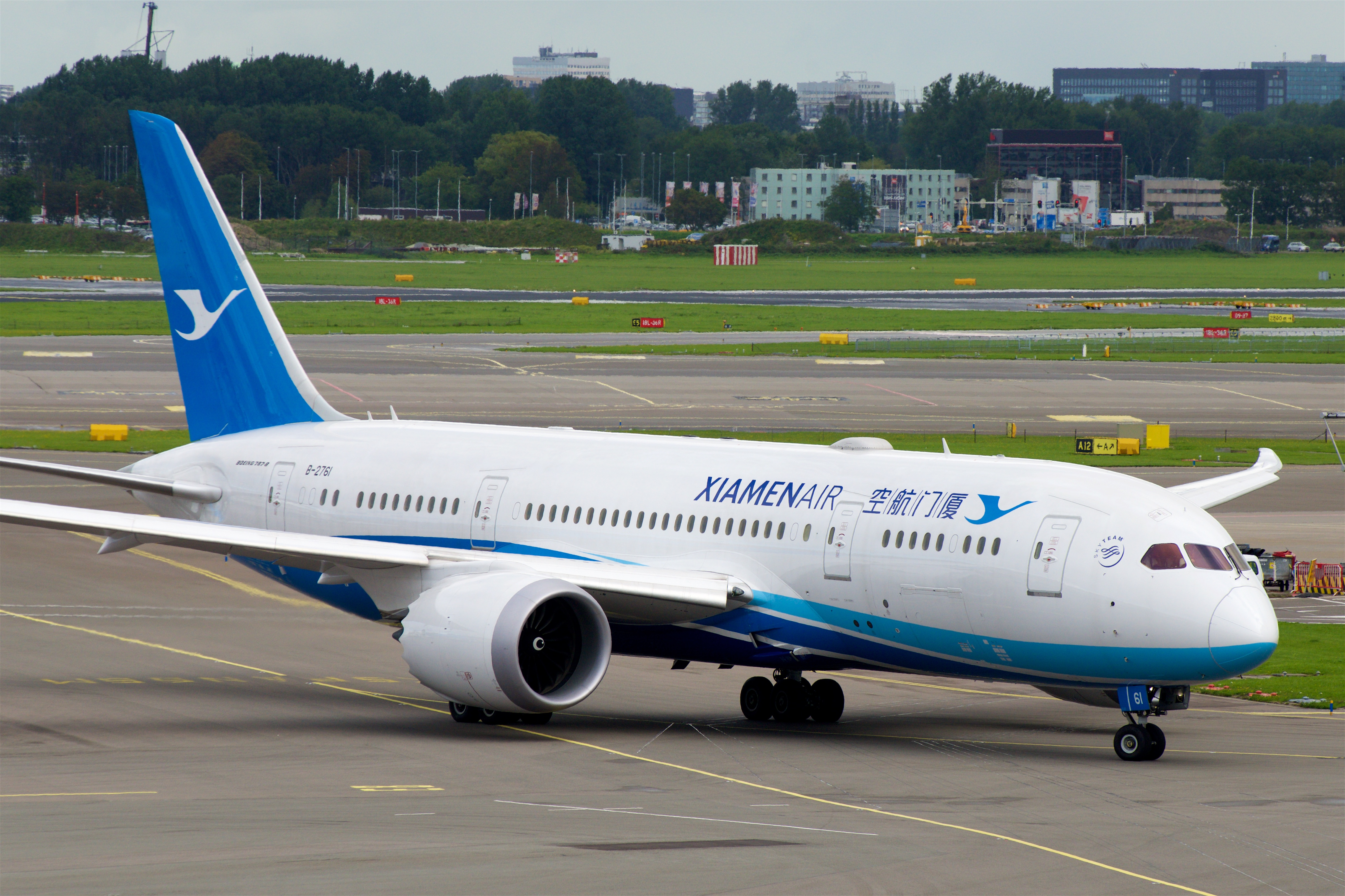 Crappy weather at AMS, but 787!